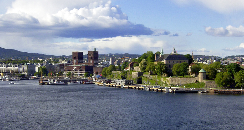 Vippetangen in downtown Oslo, with Oslo City Hall and Akershus Festning